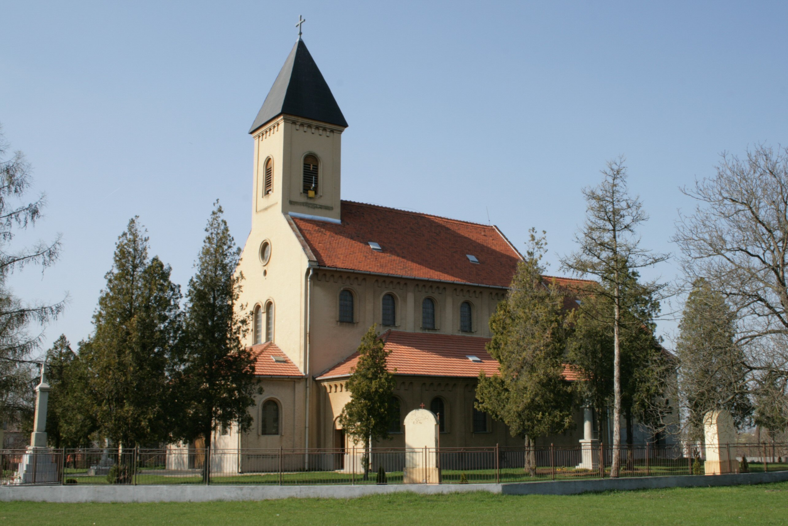 Church in Bruty (Nové Zámky district, Slovak Republic).